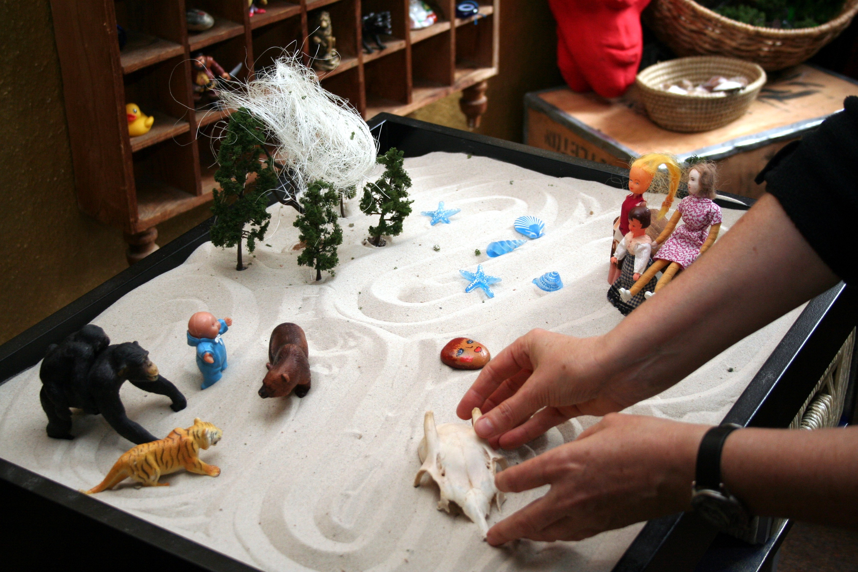 Sand Play Therapy/ Sandspieltherapie nach Dora M. Kalff